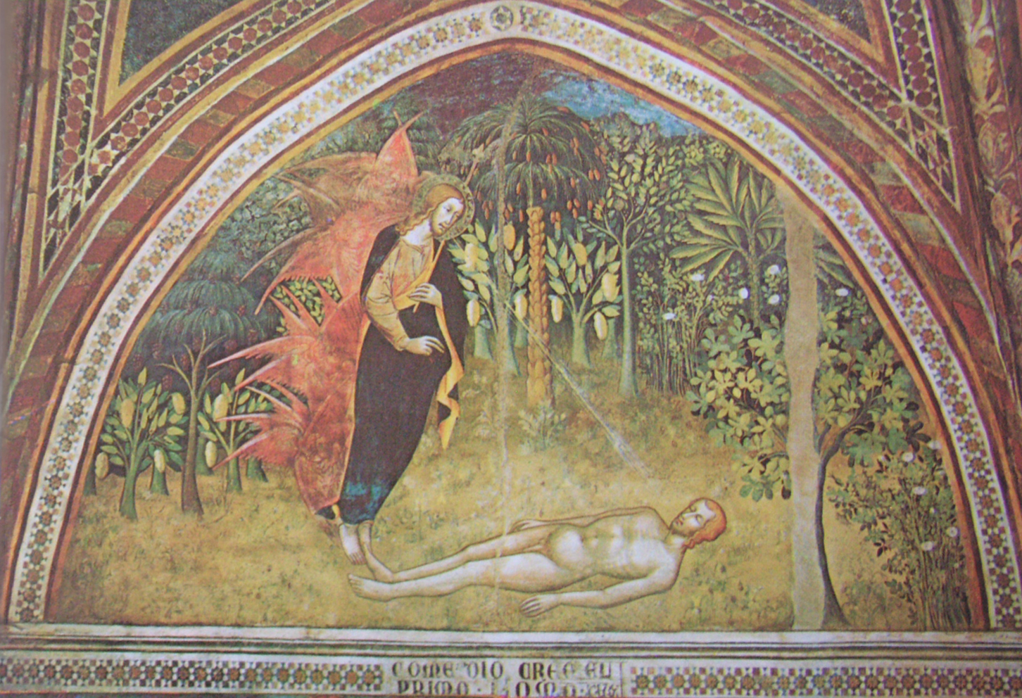 Collegiate Church of San Gimignano, Italy. from the Old Testament cycle: The Creation of Adam.